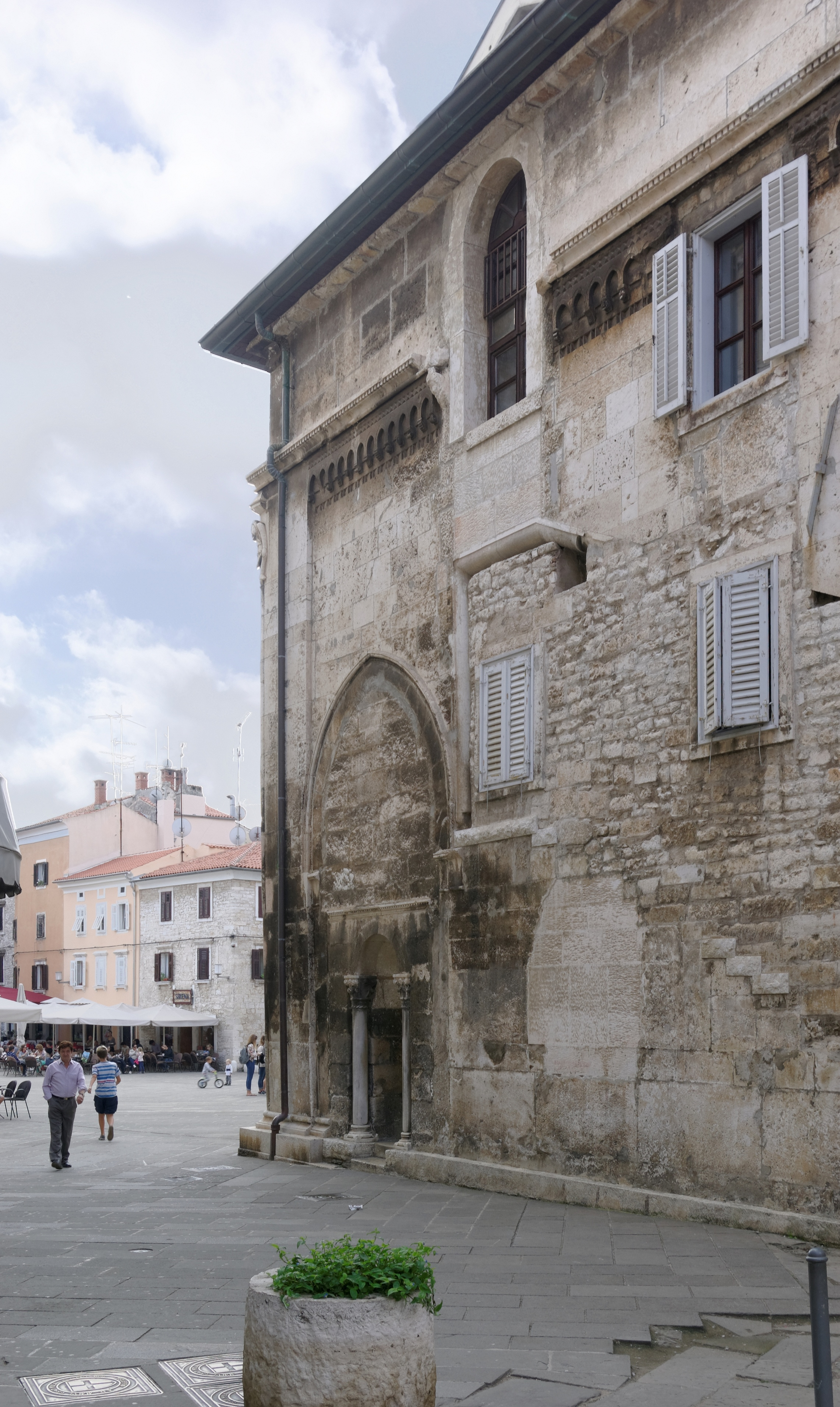 Croatia, Pula, town hall, view from north east